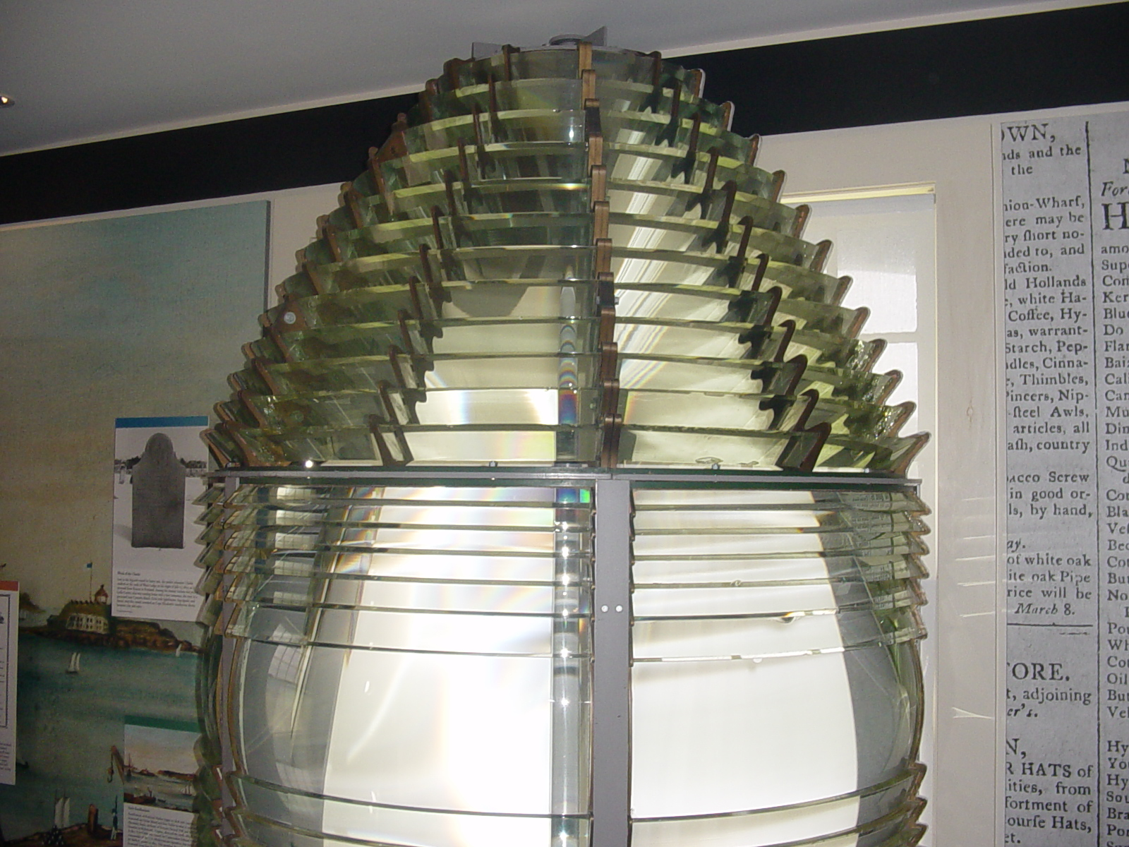 Lens on Display inside keepers house at the Portland Head Light. Photo taken by myself.